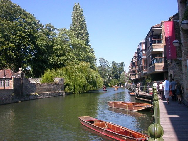 Cambridge-River Cam Looking north from near the Magdalene Bridge.